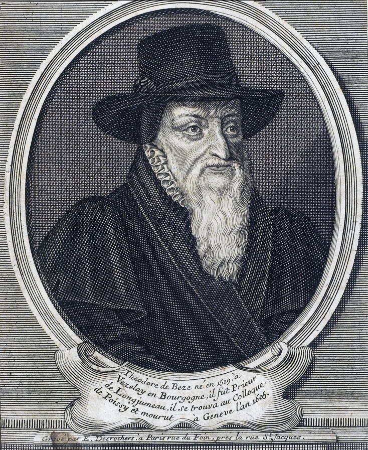 Theodore Beza